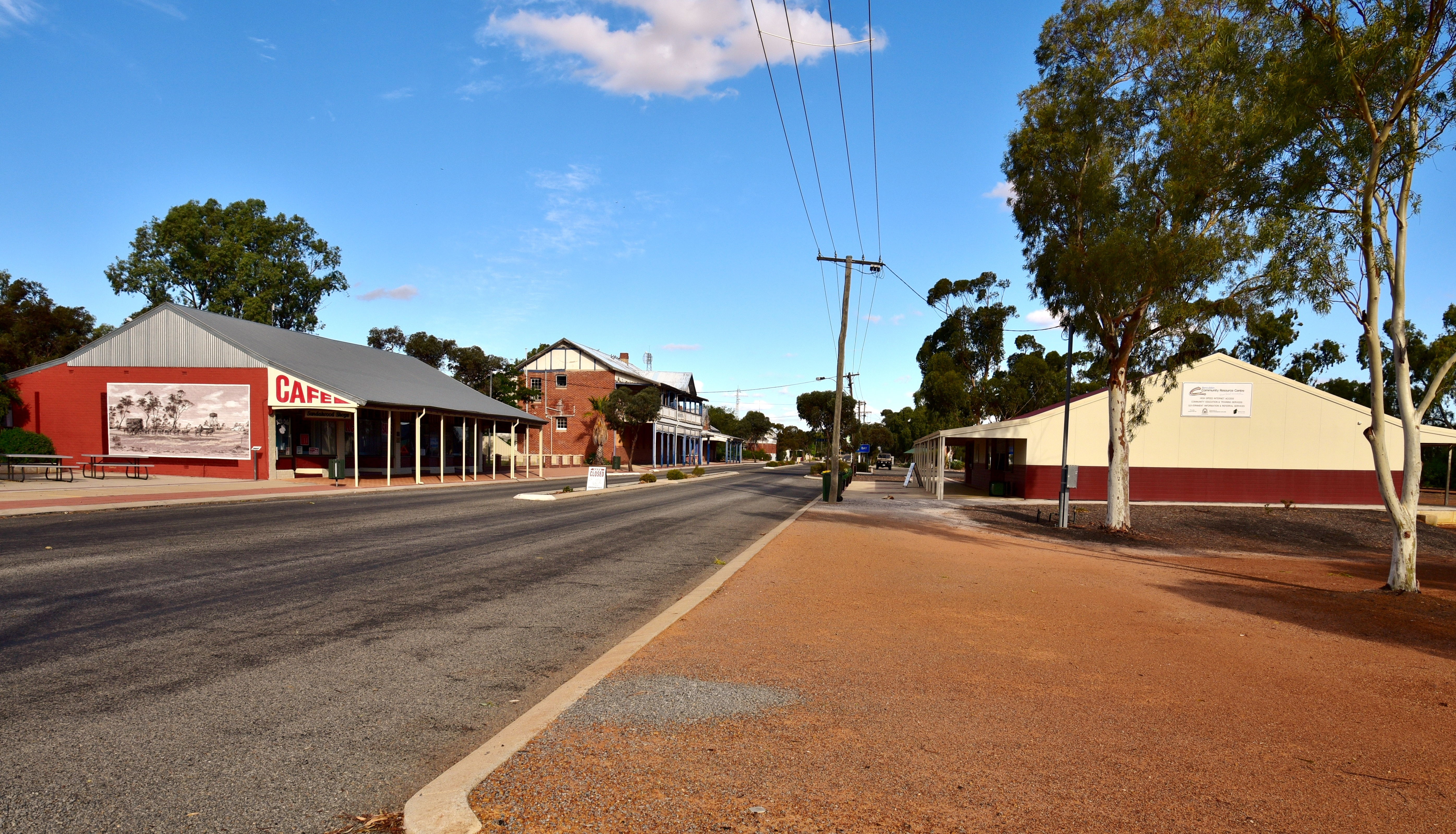 View of Monger Street, the main street of Bencubbin, Western Australia